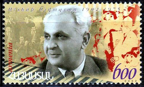 Stamp of Armenia